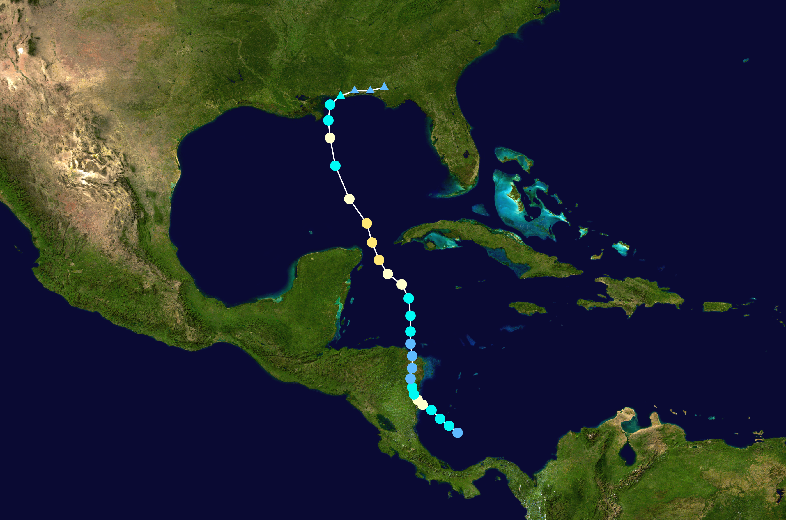 Track map of Hurricane Ida of the 2009 Atlantic hurricane season. The points show the location of the storm at 6-hour intervals. The colour represents the storm's maximum sustained wind speeds as classified in the Saffir–Simpson scale (see below), and the shape of the data points represent the nature of the storm, according to the legend below. Saffir–Simpson scale Tropical depression≤38 mph≤62 km/h Category 3111–129 mph178–208 km/h Tropical storm39–73 mph63–118 km/h Category 4130–156 mph209–251 km/h Category 174–95 mph119–153 km/h Category 5≥157 mph≥252 km/h Category 296–110 mph154–177 km/h Unknown Storm type Tropical cyclone Subtropical cyclone Extratropical cyclone / Remnant low / Tropical disturbance / Monsoon depression